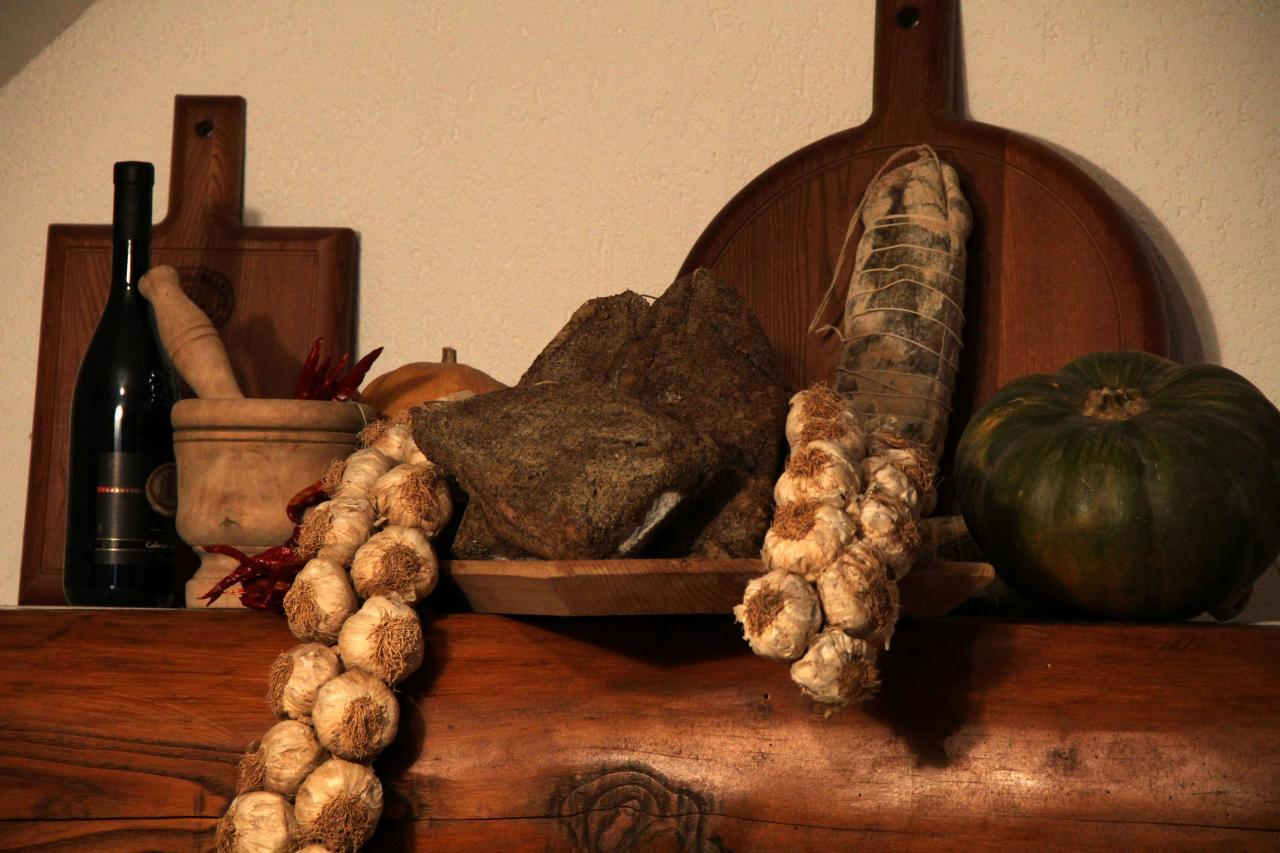 Guanciale di Norcia - Italy